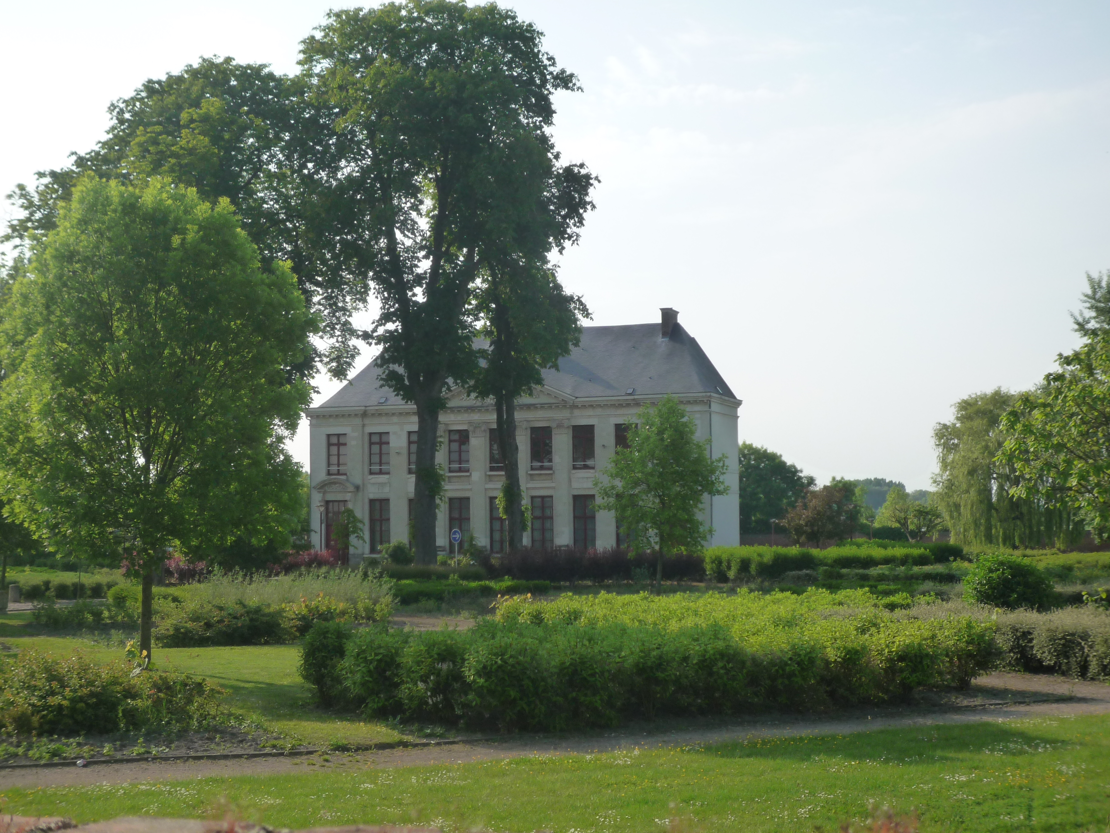 Somain, France.